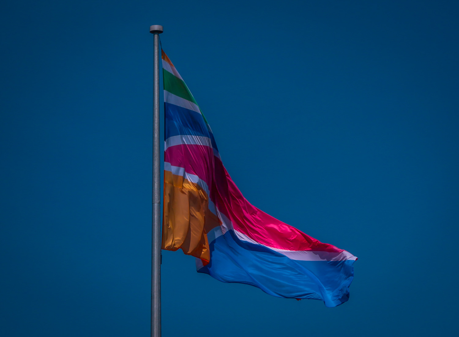 Flag of Innopolis.